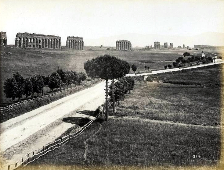 James Anderson (1813-1877) - "Rome. Via Appia Nuova and the aqueducts built by Claudius". Catalogue # 216. Alternative take. Alternative take.